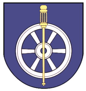 Coat of arms from Olsdorf (Eifel)